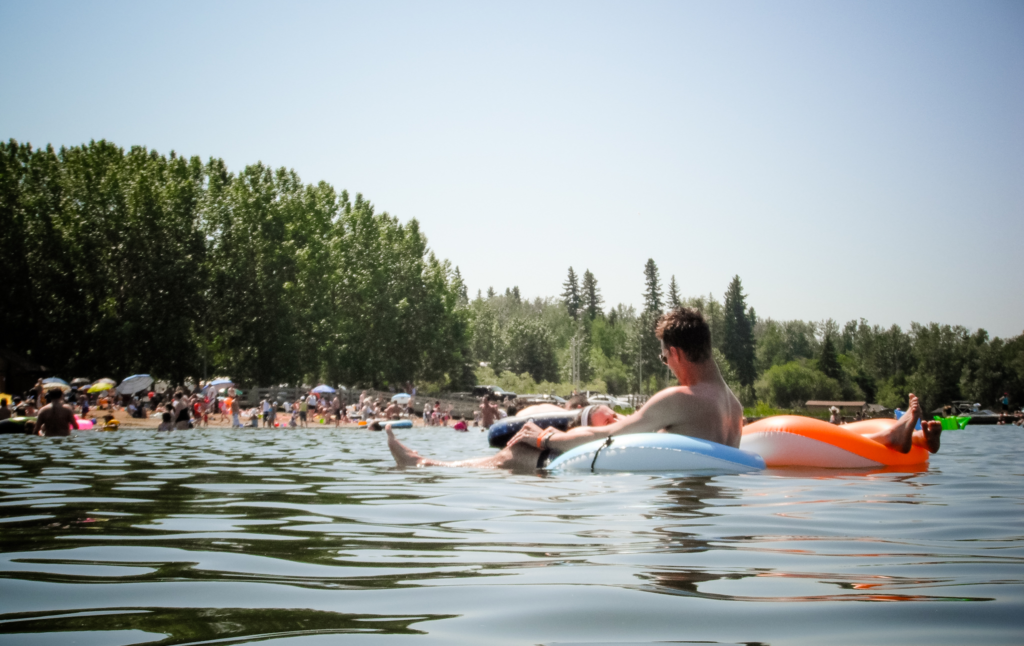 Floaty Couple